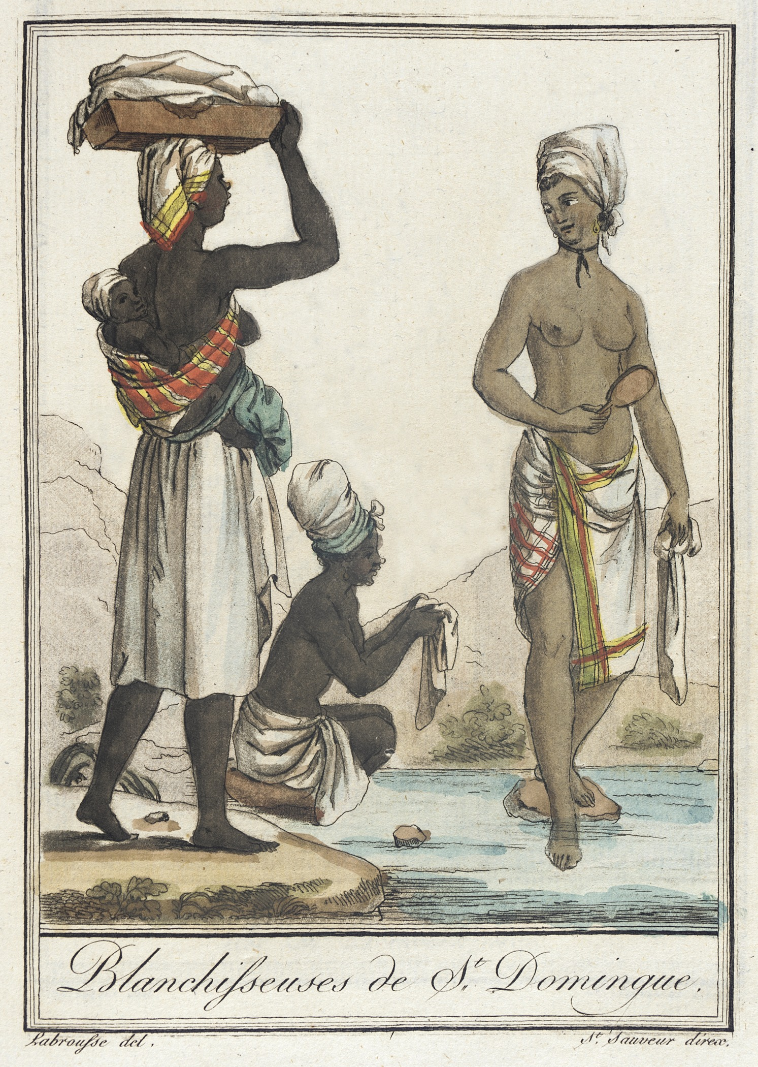 France, circa 1797 Prints; engravings Hand-tinted engraving on paper Sheet: 10 1/4 x 7 3/4 in. (26.04 x 19.69 cm); Composition: 7 3/4 x 5 1/2 in. (19.69 x 13.97 cm) Costume Council Fund (M.83.190.356) Costume and Textiles